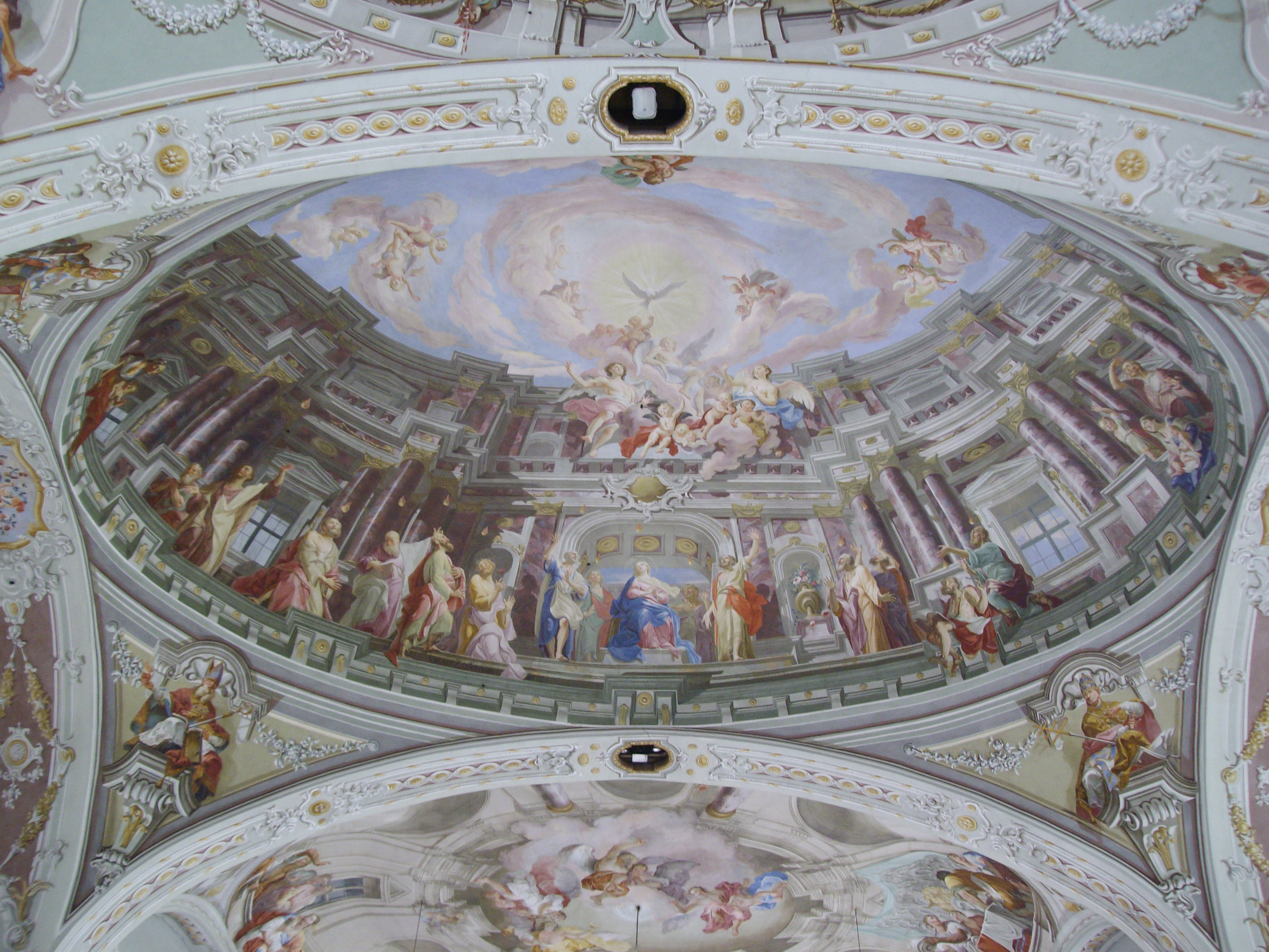 Austria, Tyrol, Neustift im Stubaital, Hl. Georg. The ceiling is formed by three painted false dome by J. Keller, J.A. Zoller and F.J. Haller (1772).